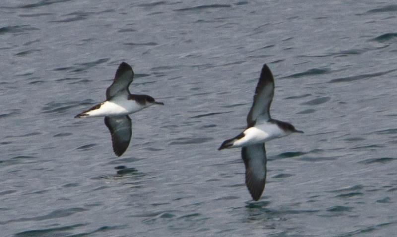 Two Manx Shearwaters flying in Iceland.